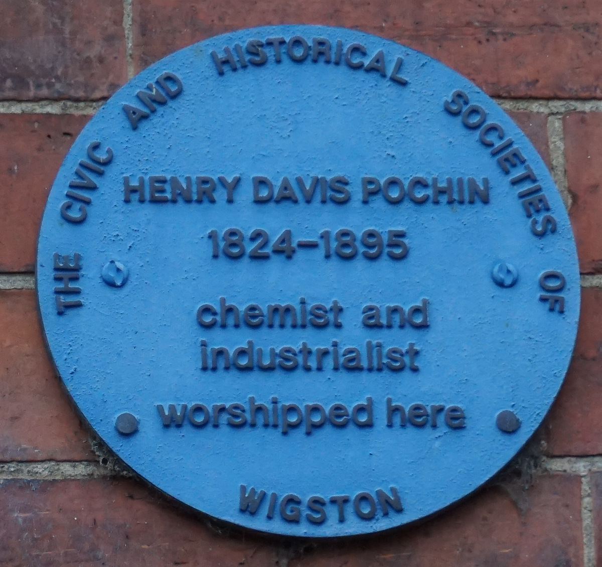 Henry Davis Pochin